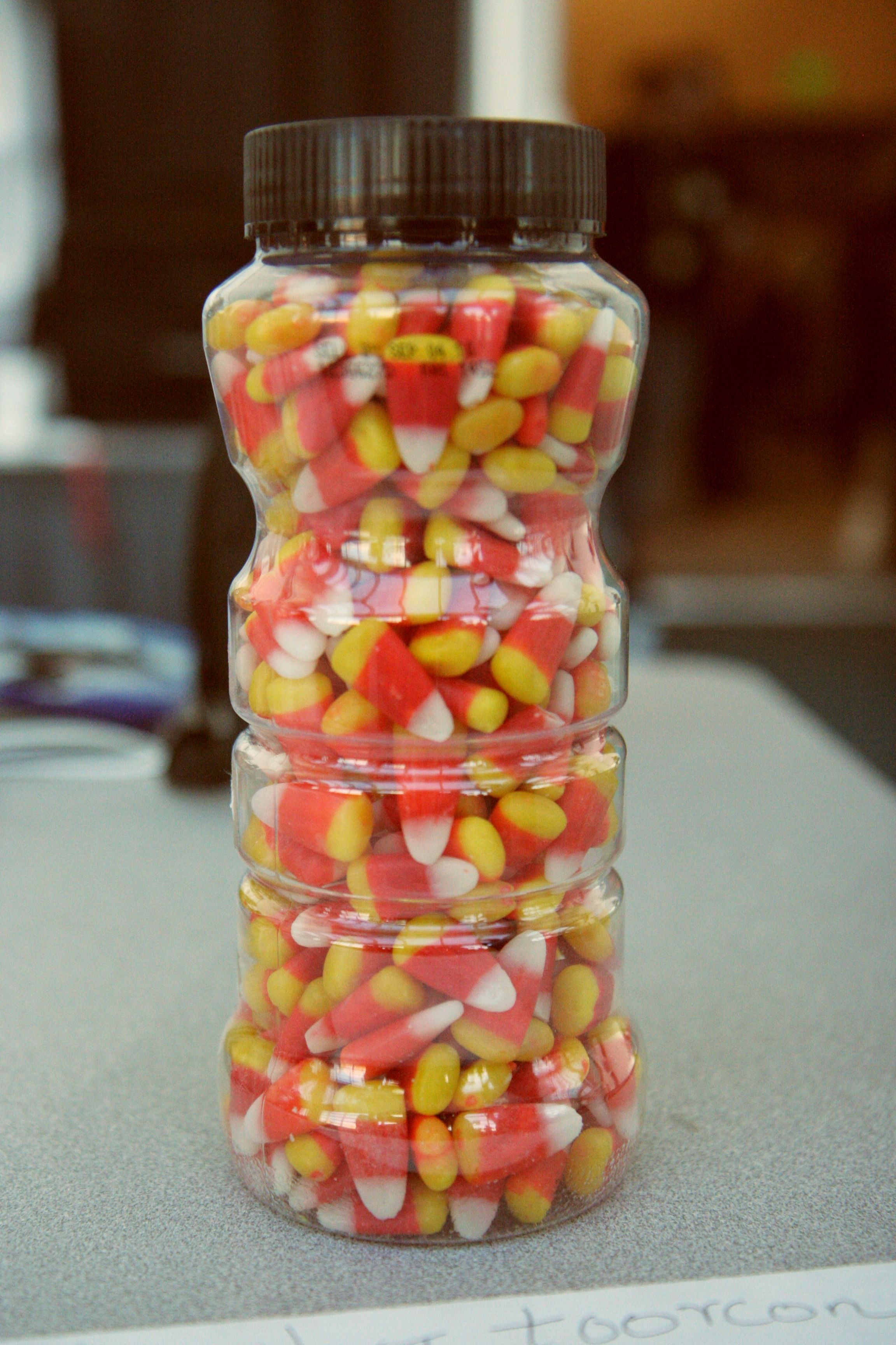 Candy corn contest jar.